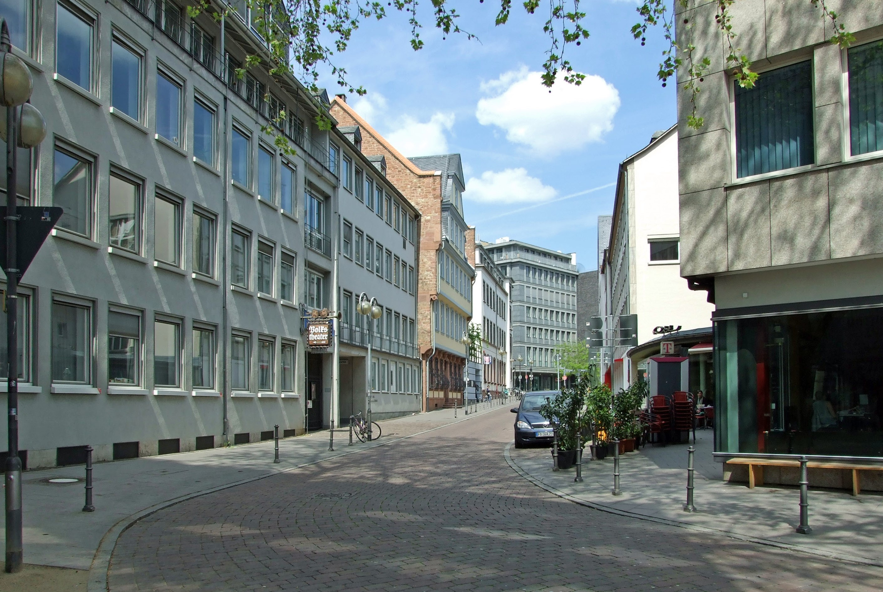 Goethe-House, Grosser Hirschgraben, Frankfurt am Main Innenstadt